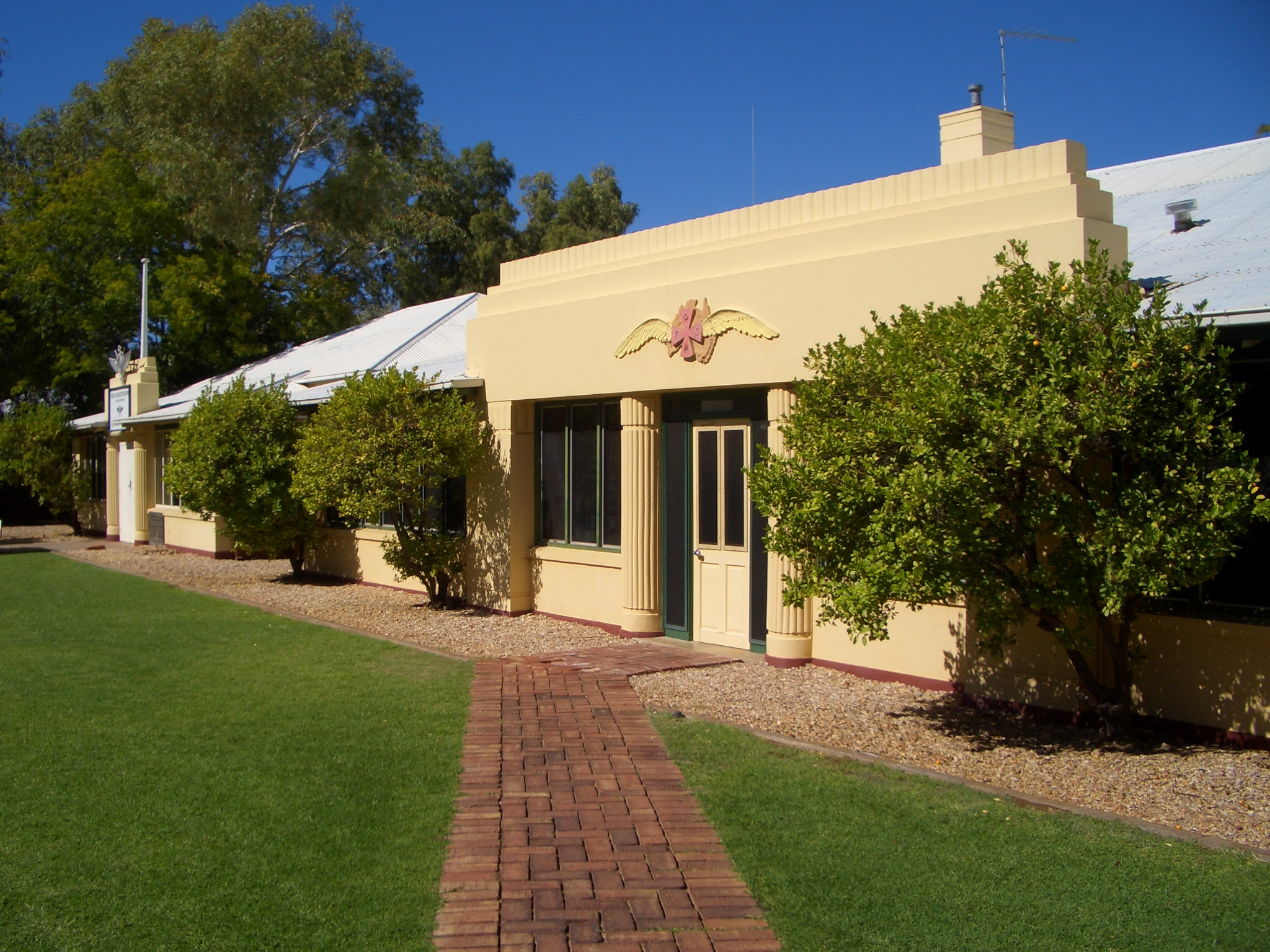 Visitors Centre der Flying Doctors in Alice Springs